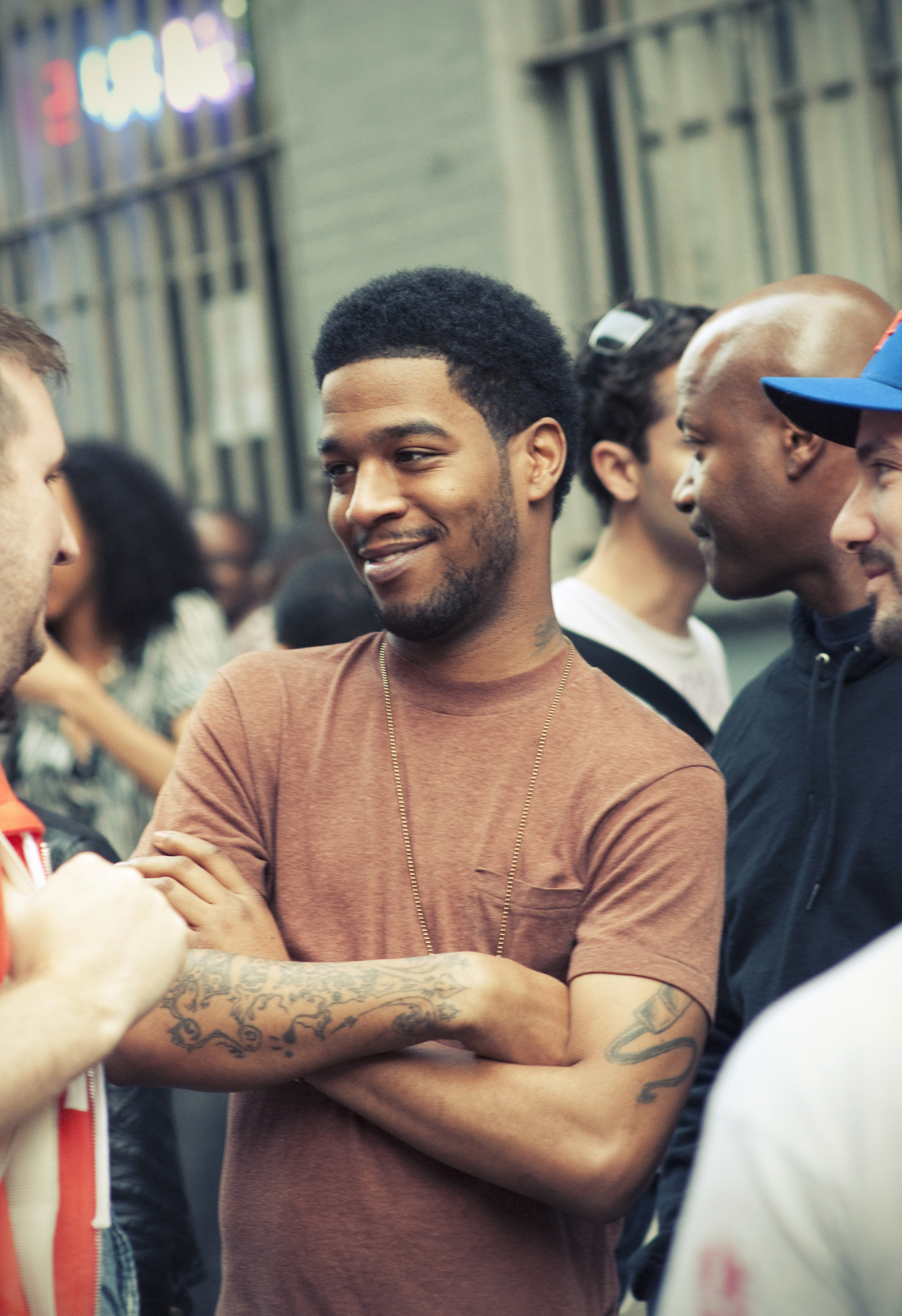 Kid Cudi on April 4, 2010 in New York City.